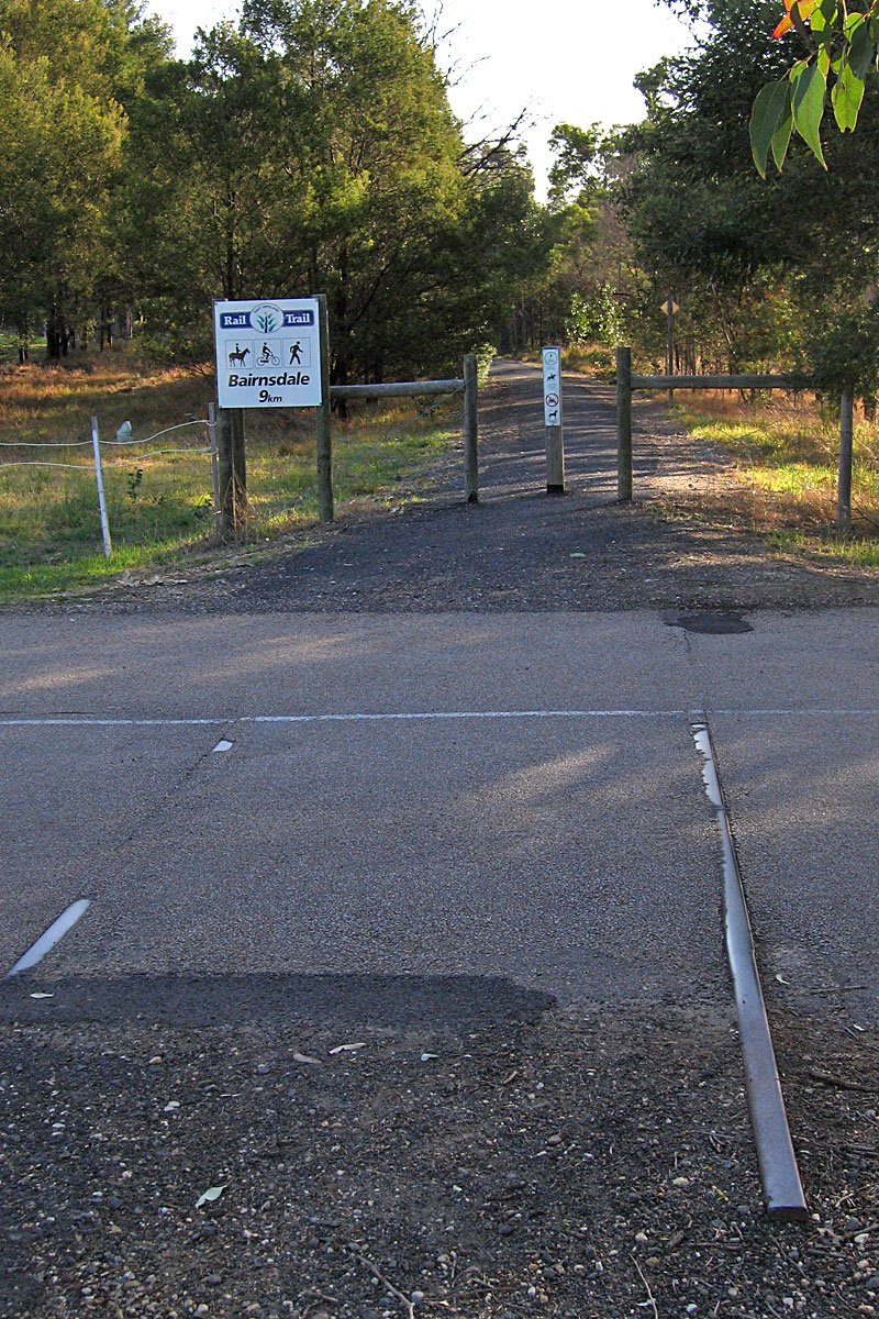 Looking west (towards Bairnsdale) along the East Gippsland Rail Trail from the Nicholson-Sarsfield Rd. Note the train tracks from the former railway still visible through the road surface. Nicholson, Victoria, Australia.